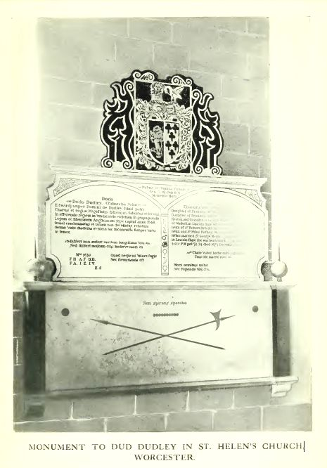 Epitaph of the iron master Dudd Dudley (1599–1684), St. Helen's church, Worcester.